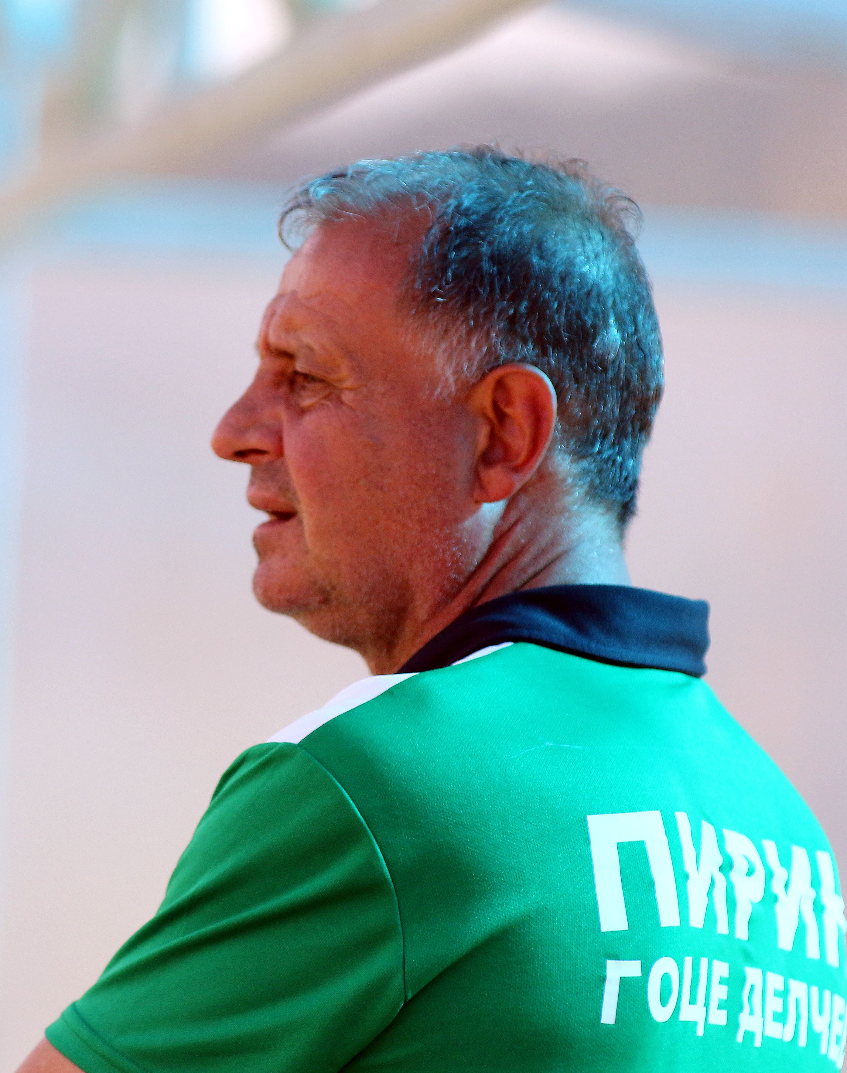 Yordan Bozdanski (Bulgarian: Йордан Боздански) (born 7 October 1964) is a Bulgarian former football player and former football manager of Pirin Blagoevgrad.